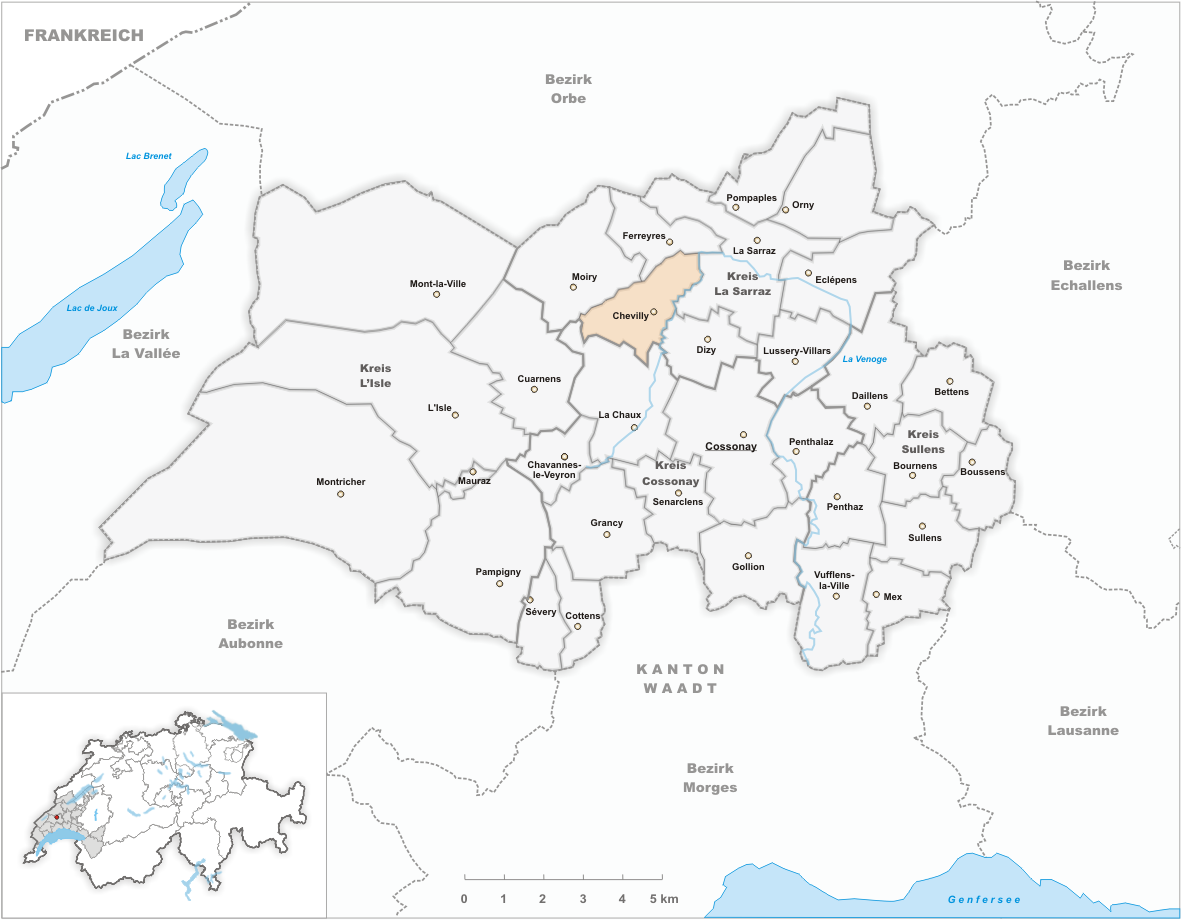 Municipality Chevilly